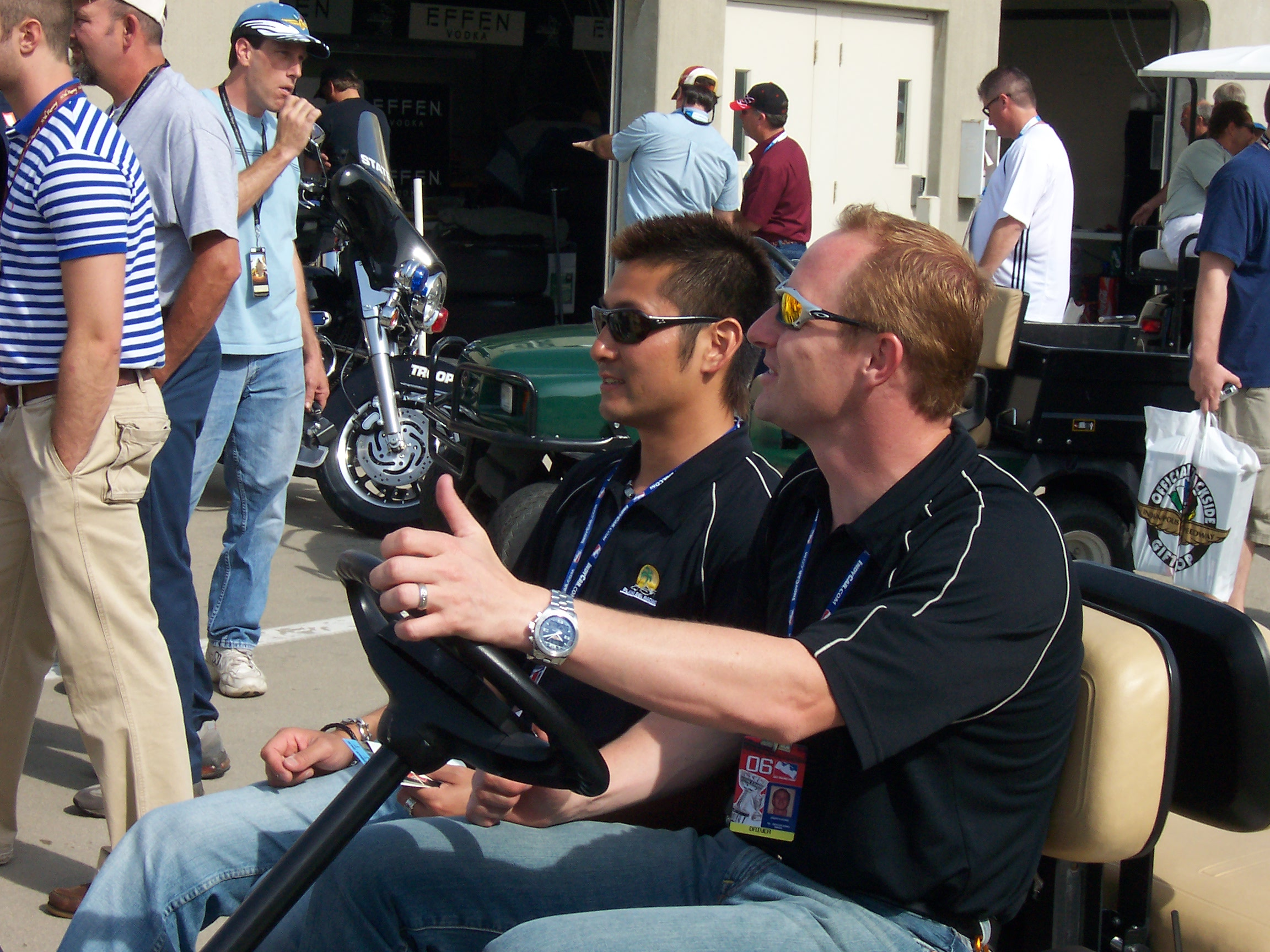 Jaques Lazier at the 2006 Indianapolis 500